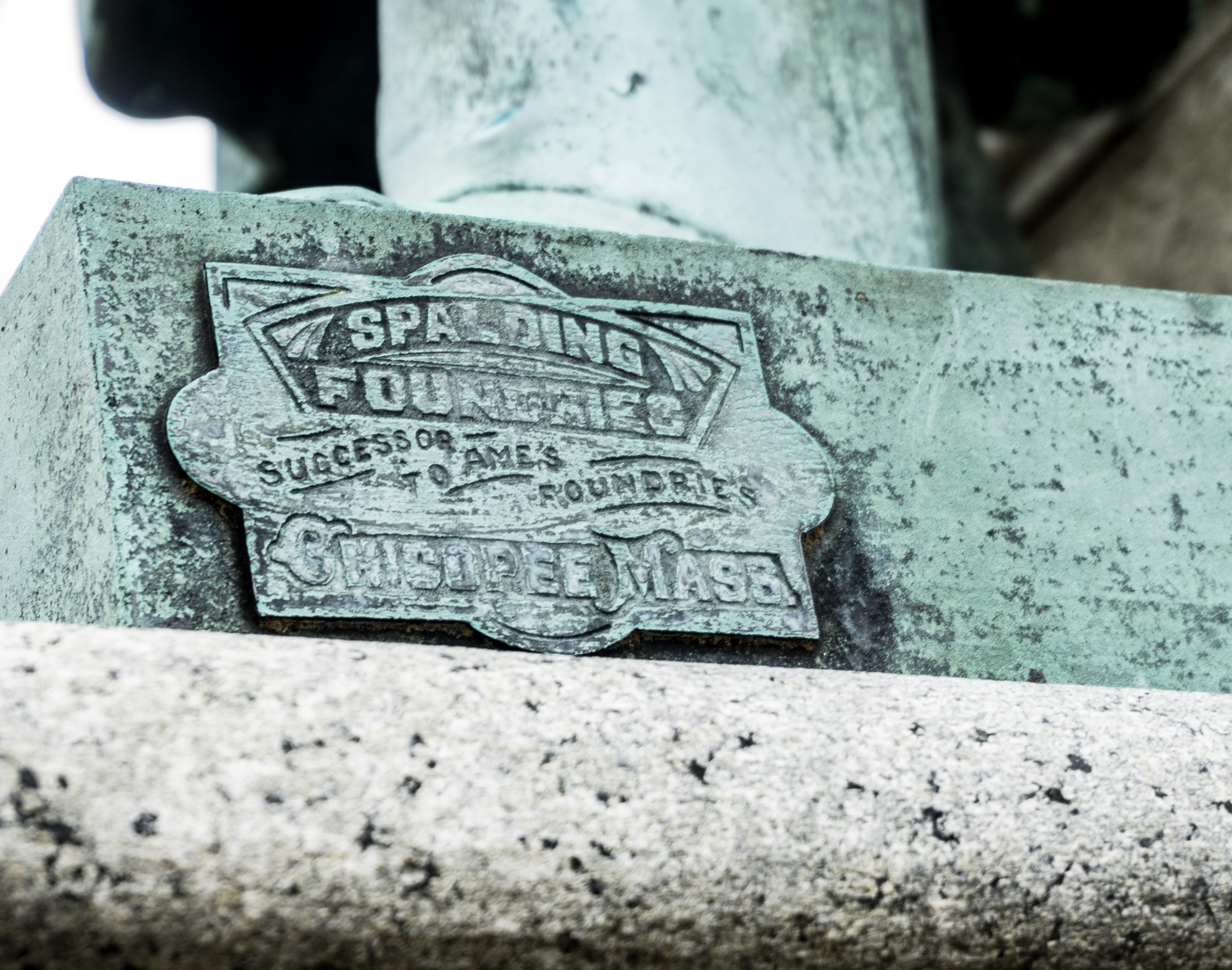 This foundry mark is on the base of the Civil War Memorial, Capron Park, Attleboro, Massachusetts. "Spalding Foundries, successor to Ames Foundries. Chicopee, Mass". 1908